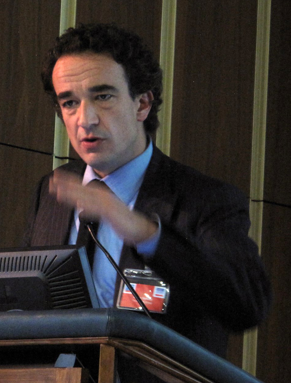 Olivier Sarkozy, Managing Director, Head of the Global Financial Services Group The Carlyle Group, LBS PE 7th annual conference see this large on black My photo stream on black